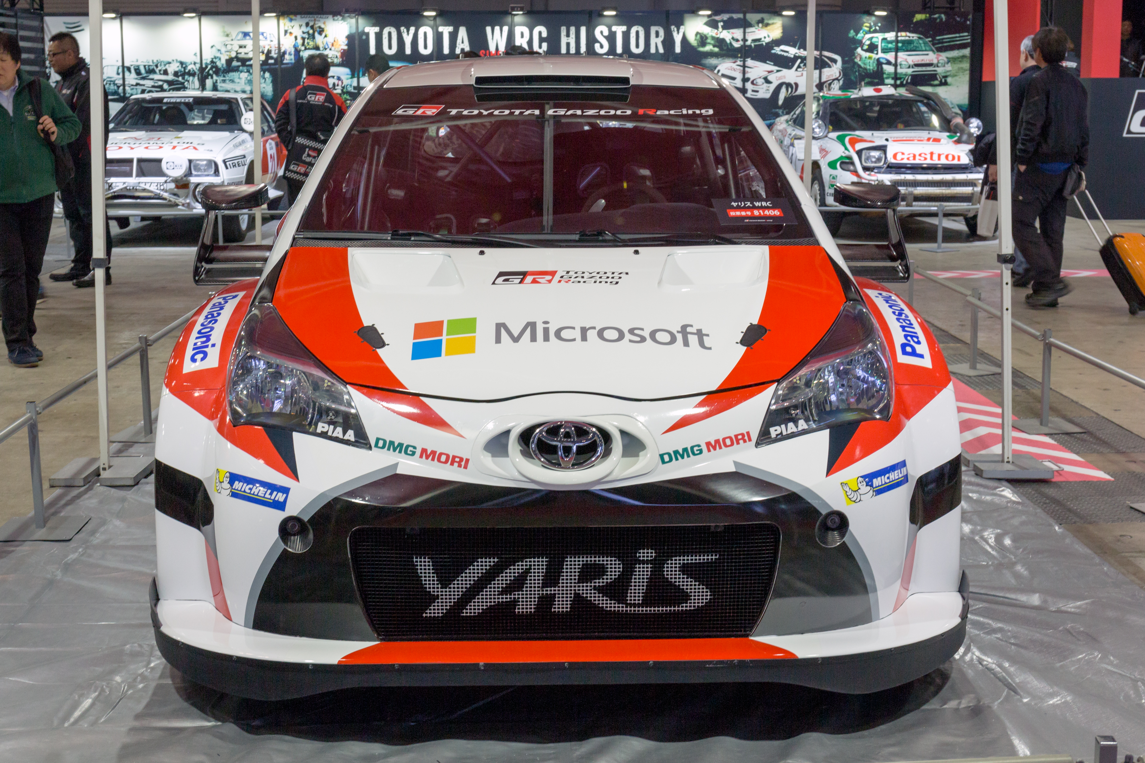 Tokyo Auto Salon 2017: 2017 Toyota Yaris WRC